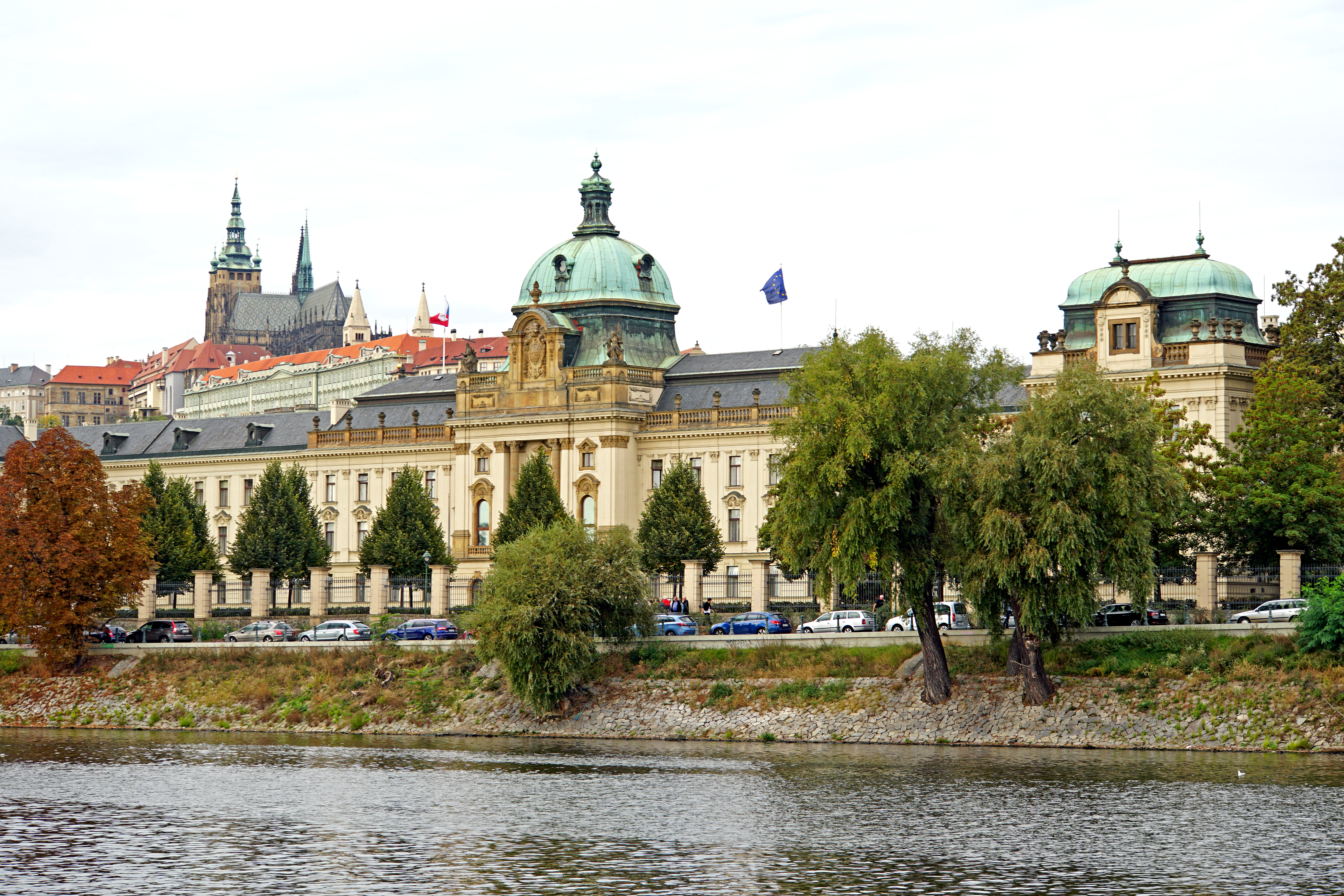 Czech Republic Prague Government Buildings